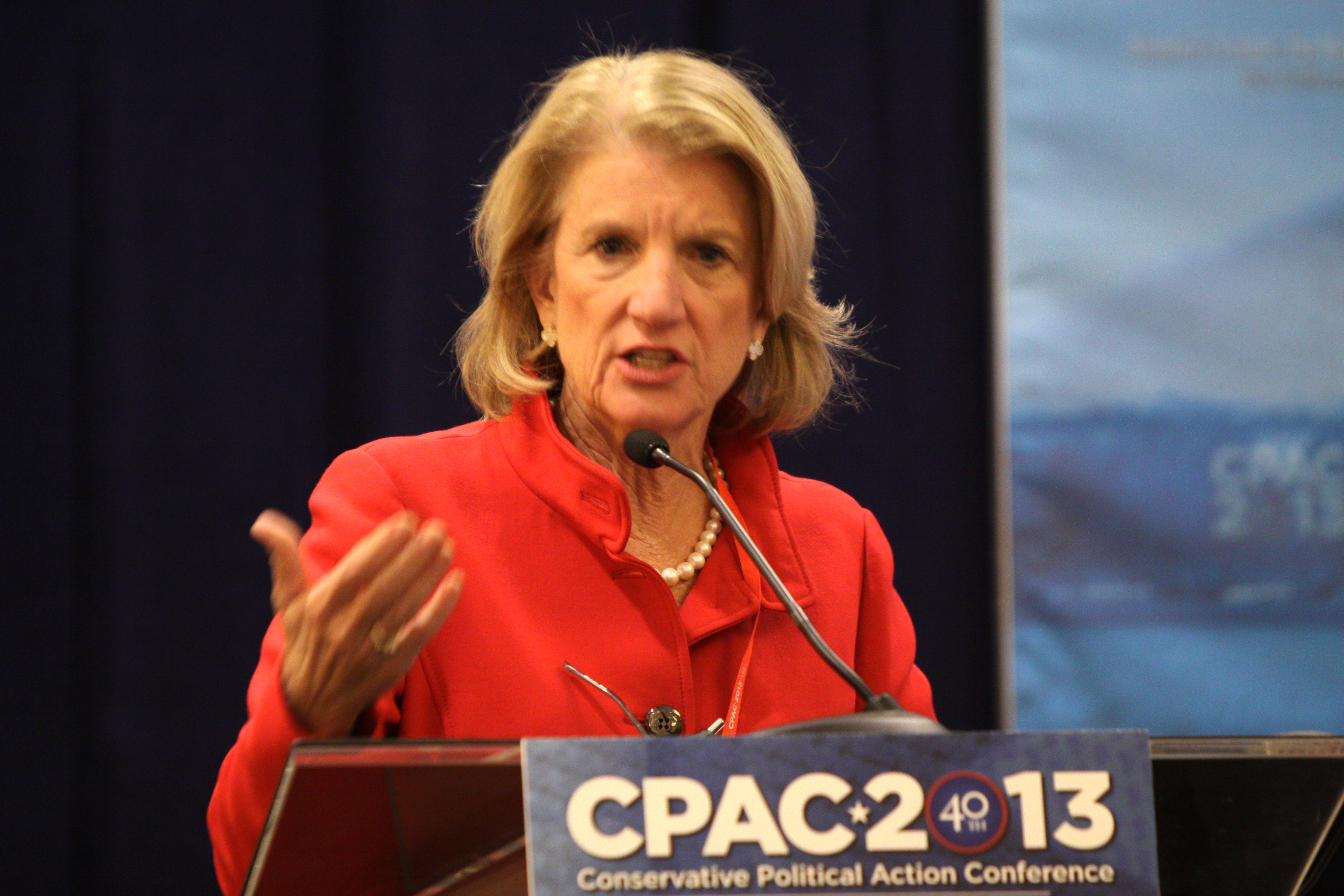 Shelley Moore Capito speaking at the 2013 Conservative Political Action Conference